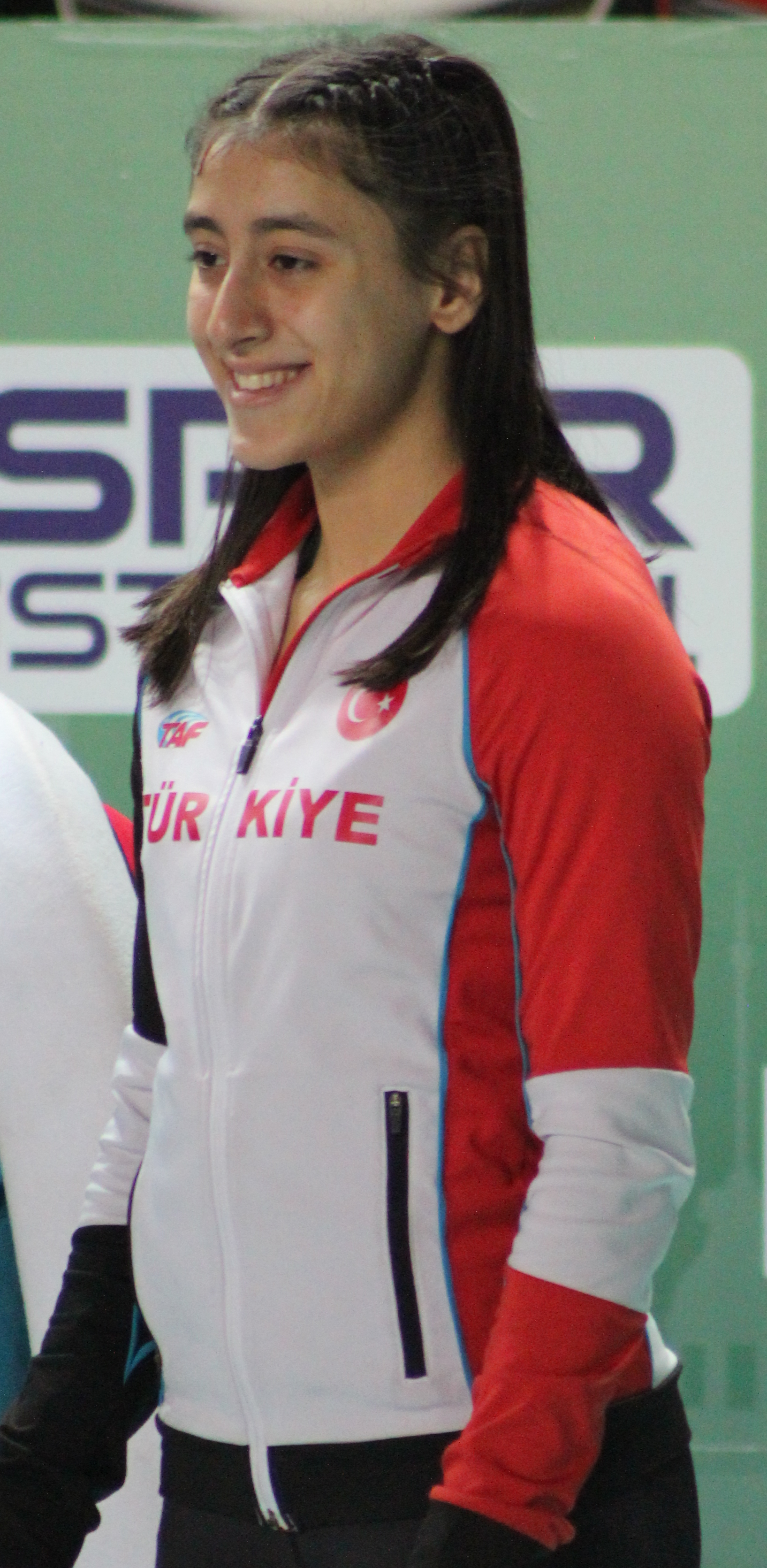 Mizgin Ay 20180218